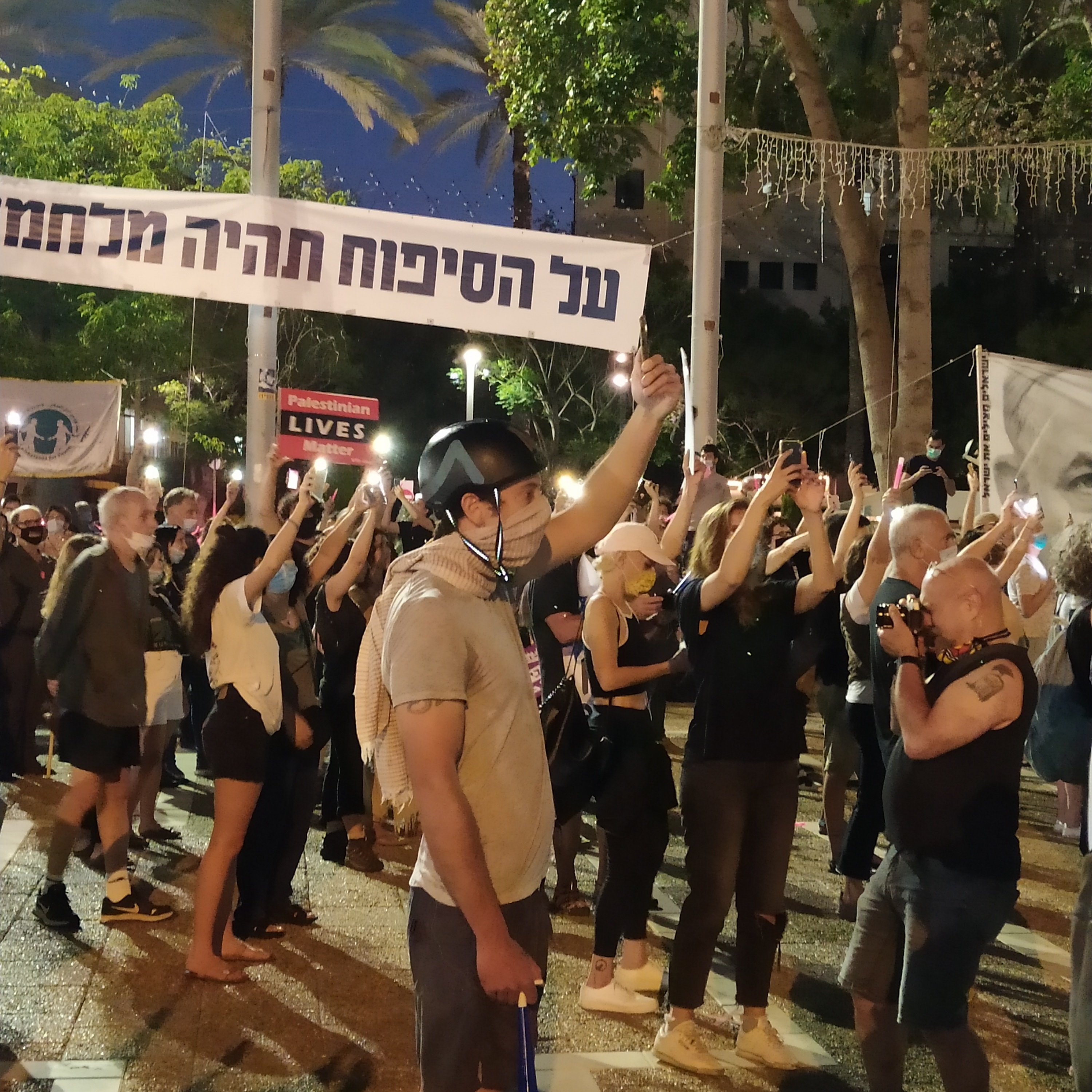 Demonstration against Israeli annexation of the West Bank, Rabin Rabin Square, Tel Aviv-Yaffo, June 6, 2020